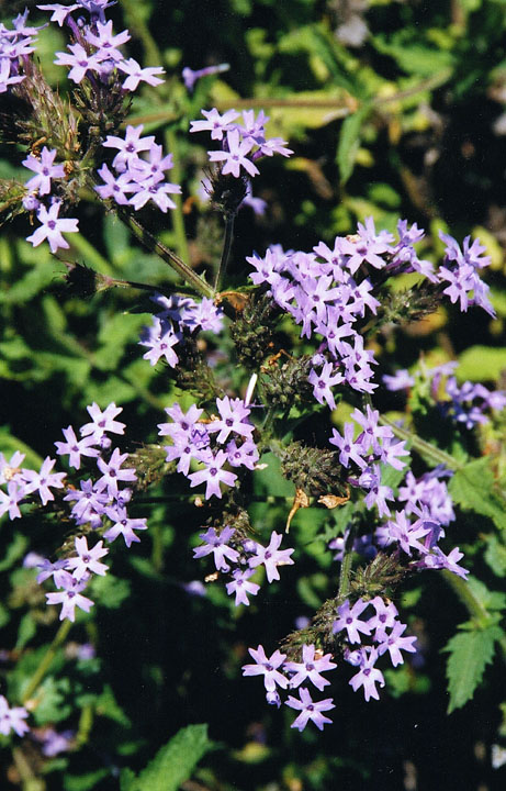 Known as Margarita Punzo in southern Chile. Here at University of B.C. Gardens. In context at